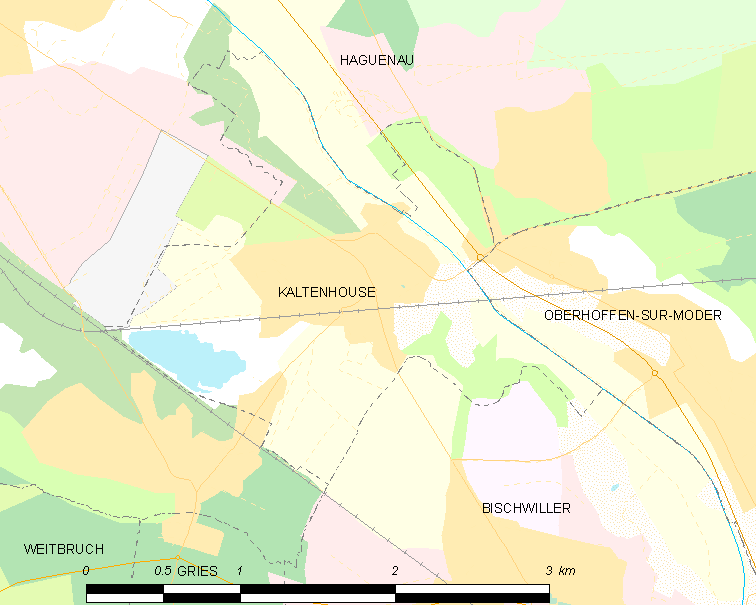 Map of French municipality